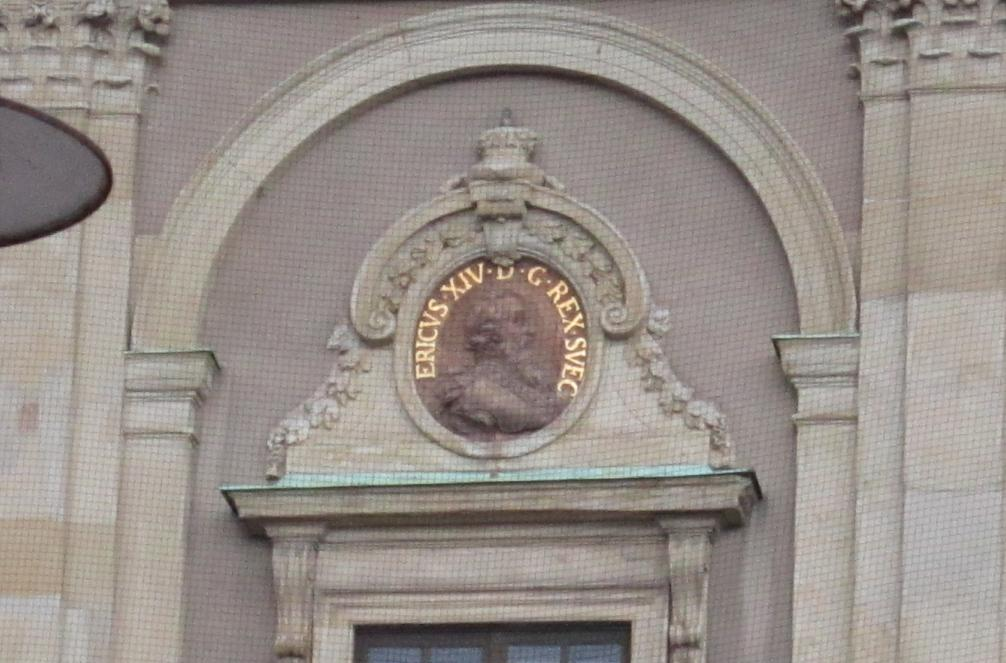 King Eric XIV of Sweden, as released by image creator Ristesson HistoryPlace: Stockholm Palace, Sweden